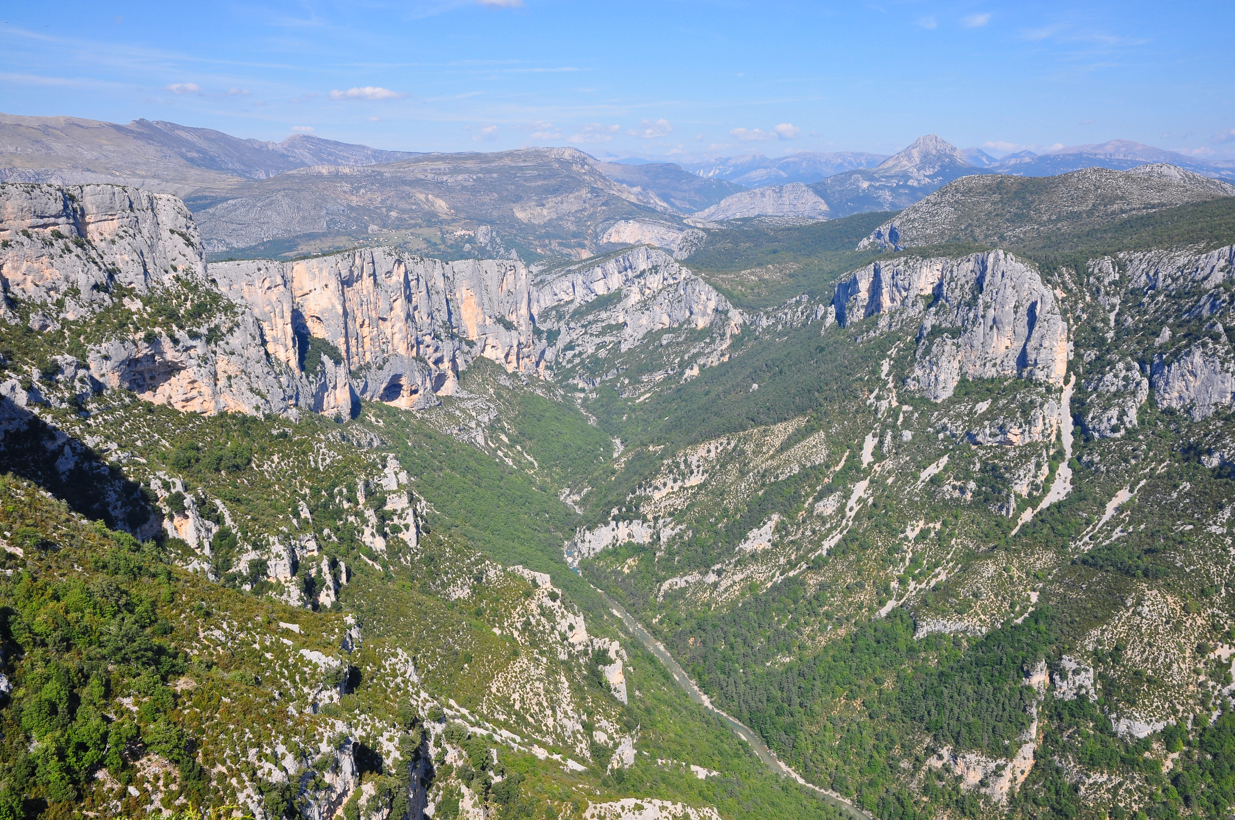 Verdon Gorge seen from viewpoint of Tilleul